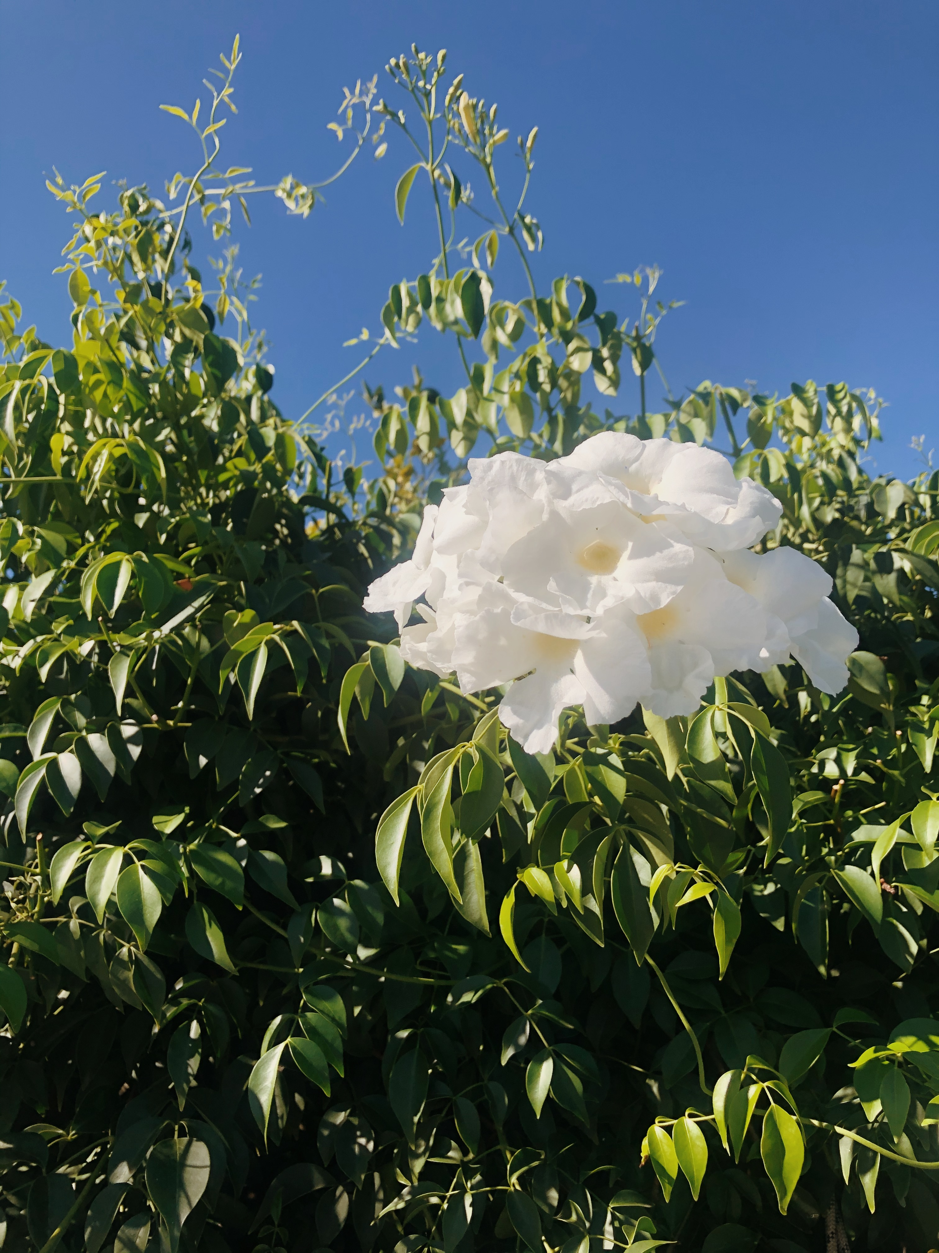 This is a white flower that grows on a vine-like plant structure